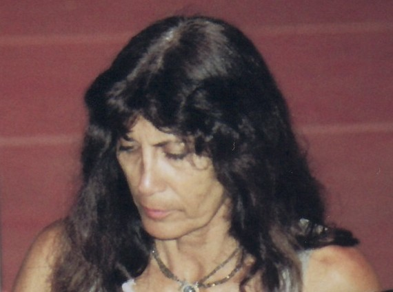 former Israeli track and field athlete Esther Roth-Shachamarov